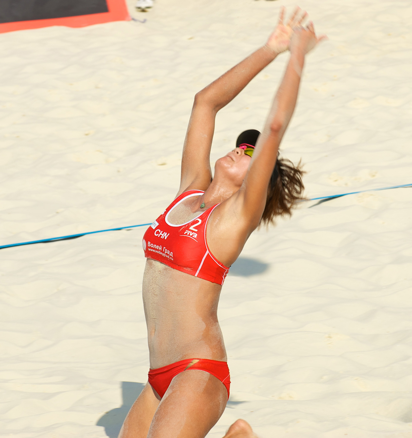 Grand Slam Moscow 2011